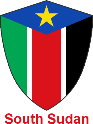 This is a Vector Version of The Badge of South Sudan National Football Team, I Have Found a Photo of The Players and I Saw The Badge, So I Decided to Make a Vector.